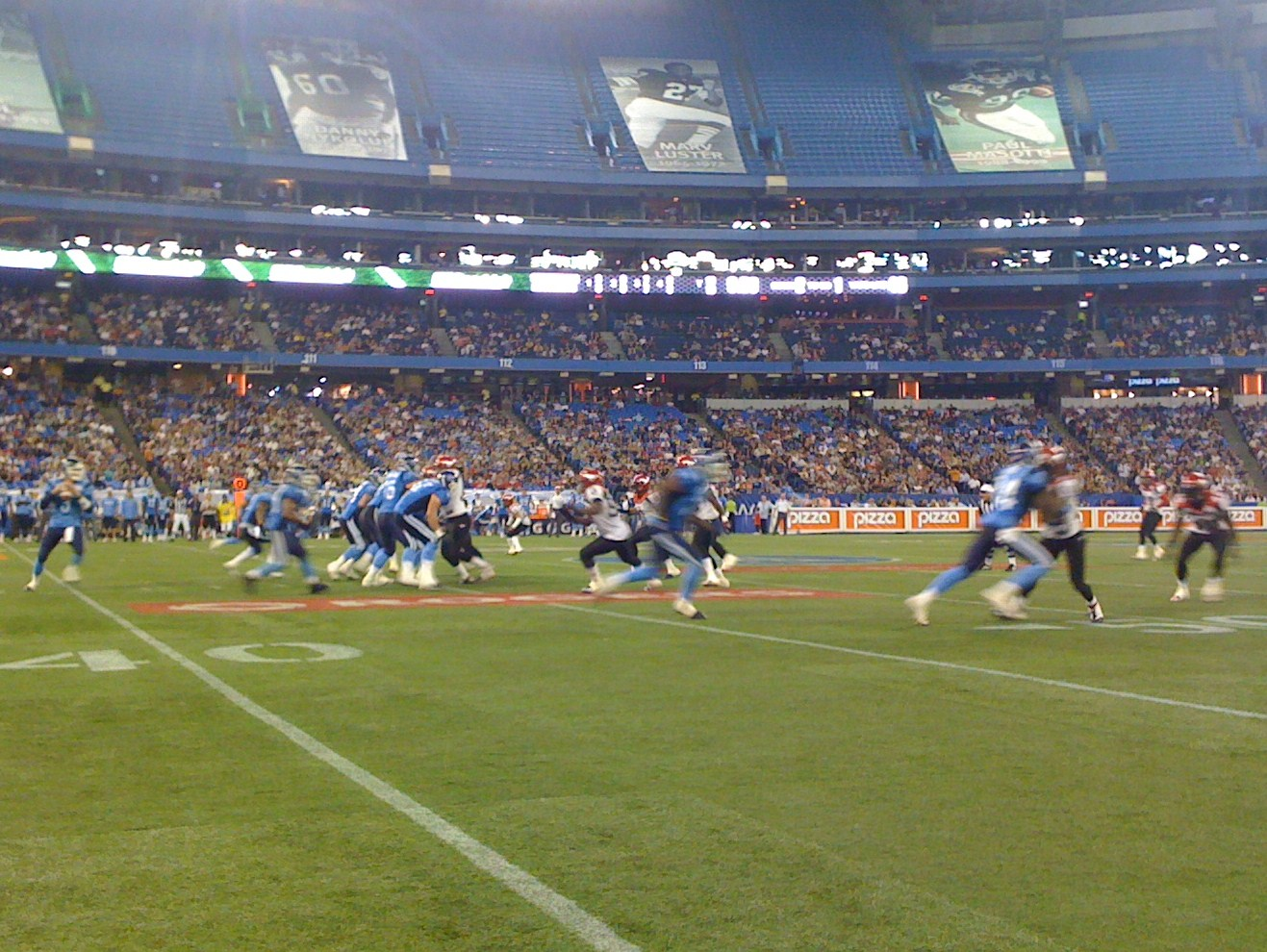 Toronto Argonauts quarterback Cody Pickett (3) prepares to pass as receivers run down field midway through the fourth quarter in a Canadian football game at the Rogers Centre, 28 August 2009.